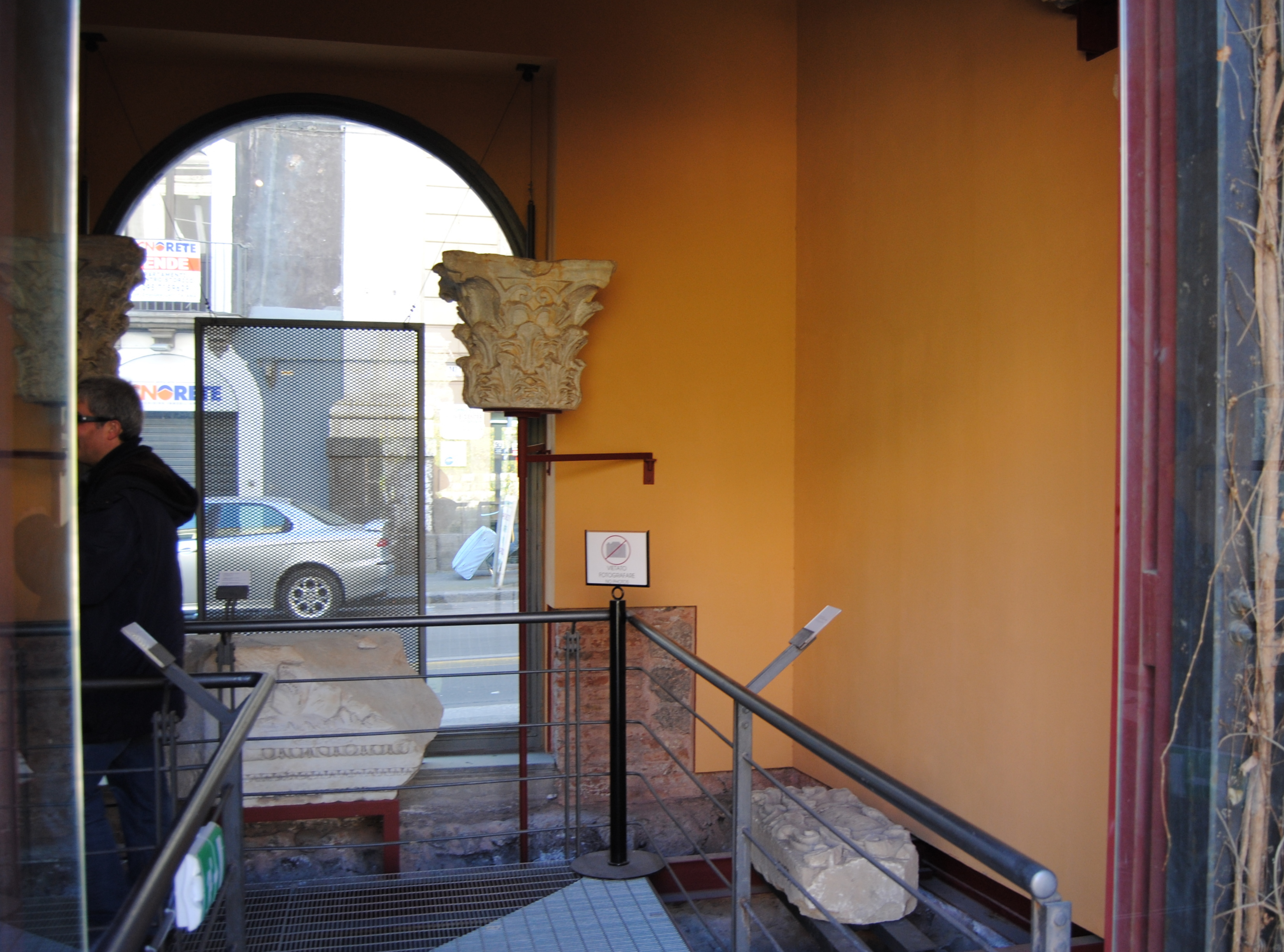 View of the regional antiquarium of Roman Theatre in Catania.